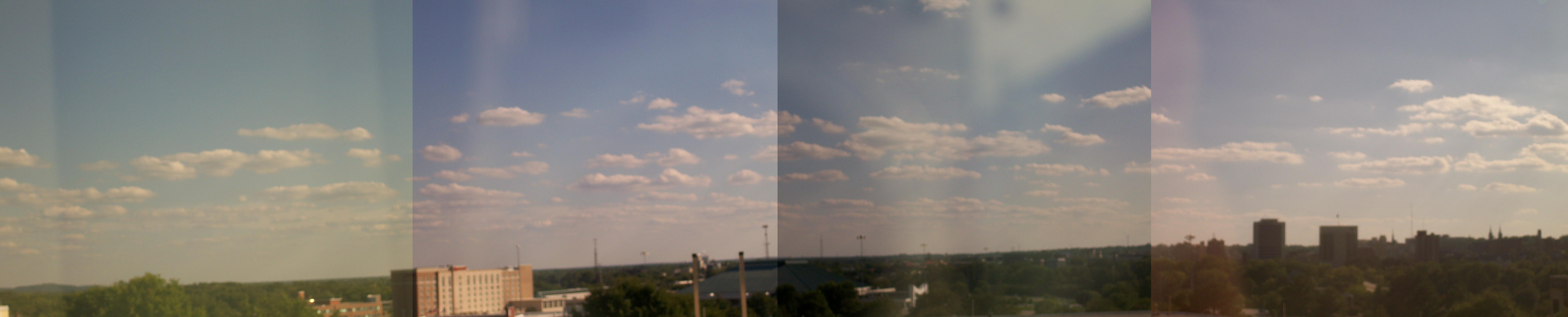 Macon's full skyline. Downtown to the right, midtown to the left.